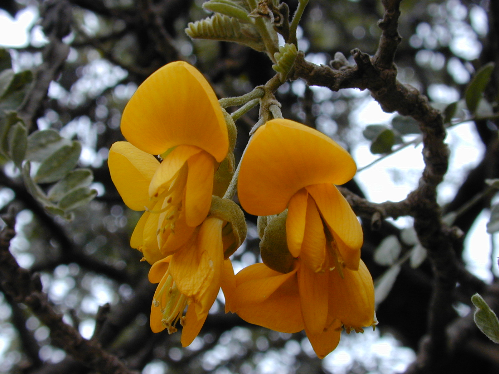 Sophora chrysophylla (flowers). Location: Maui, Polipoli